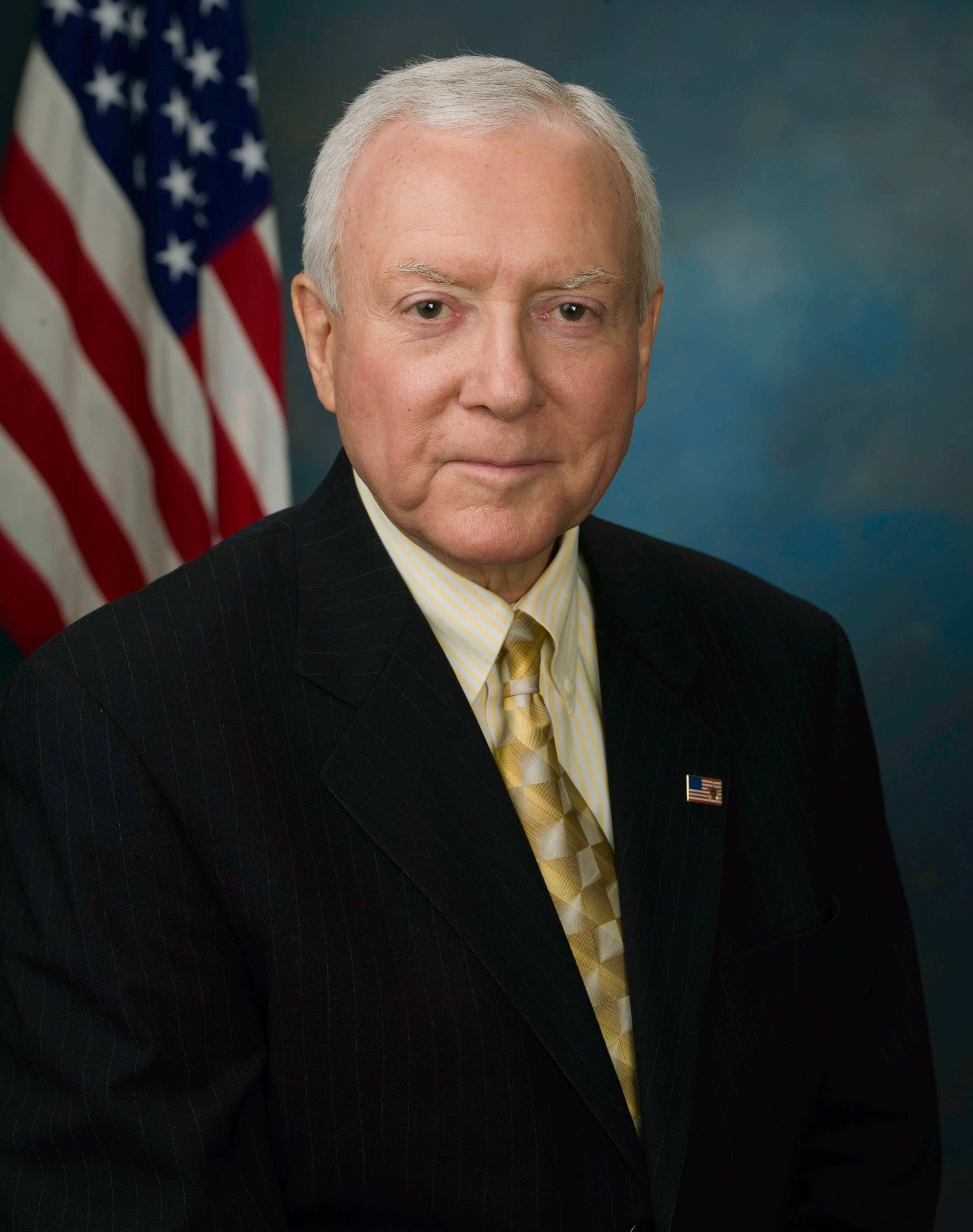 Orrin Hatch, member of the United States Senate.